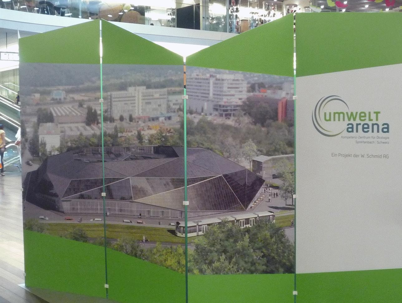 Umwelt Arena Spreitenbach, Switzerland - Project on display in the shopping arena next to.